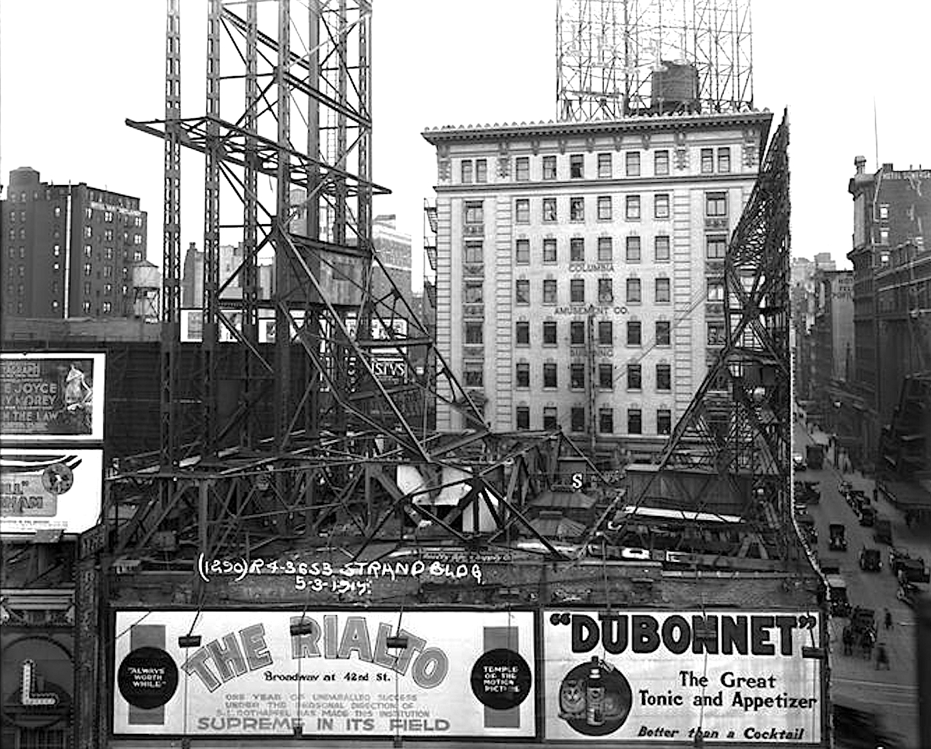 View east toward Columbia Amusement Co. Building, northeast corner of 47th Street and 7th Avenue in Manhattan; 47th Street at lower right. Apparently taken from the Strand Theatre Building. Building facade reads, across three upper floors: "COLUMBIA "AMUSEMENT CO. "BUILDING" Photograph is labeled: "(1290)R4-36S3 STRAND BLDG "5-3-1917" Columbia building formerly included the Columbia Theatre, a prominent home of burlesque. Extant in 2014, covered by billboards (like other buildings in the area).